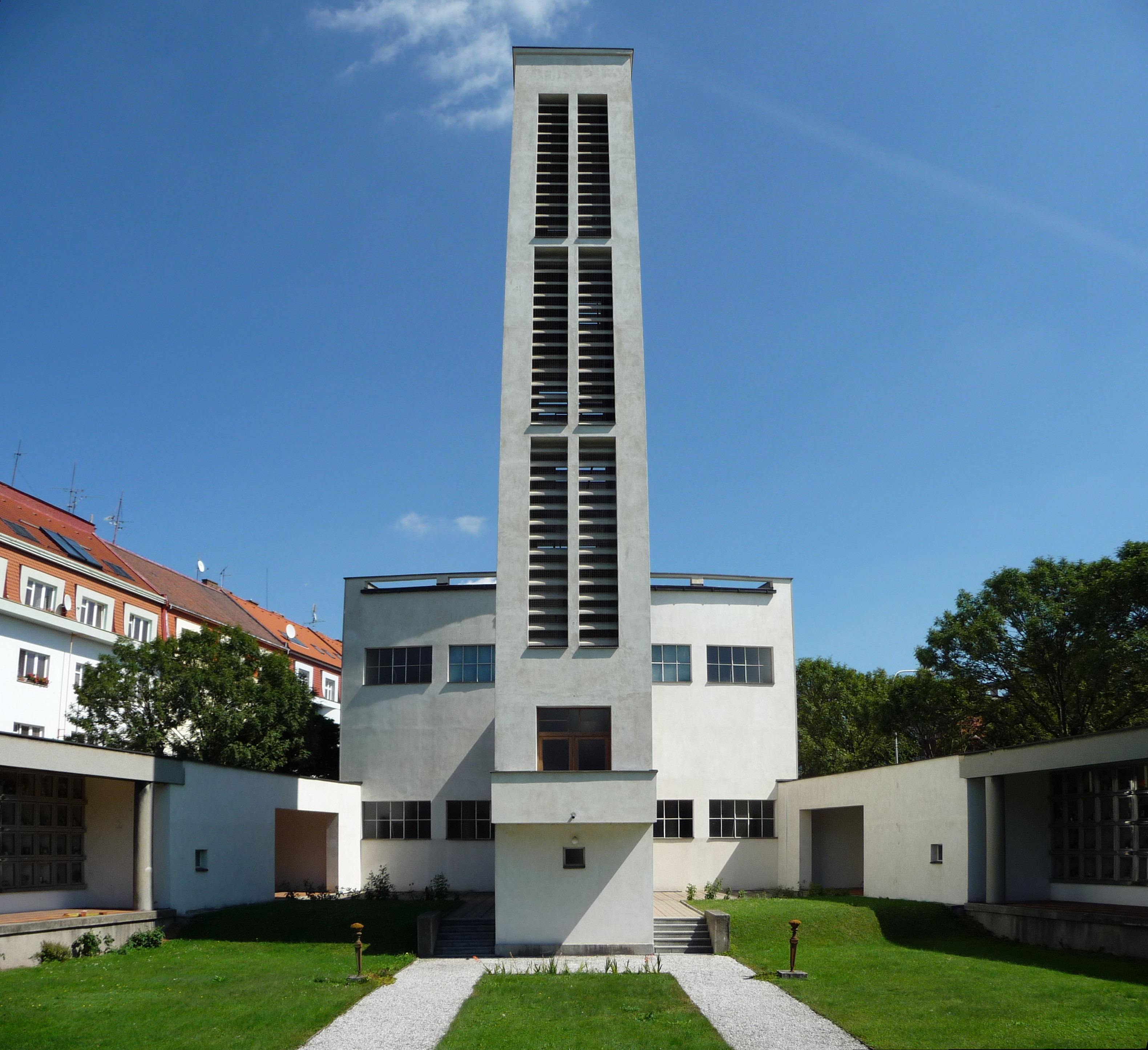 The Assembly of the Priest Ambrose in Hradec Králové (Hradec Králové Region, Czech Republic).